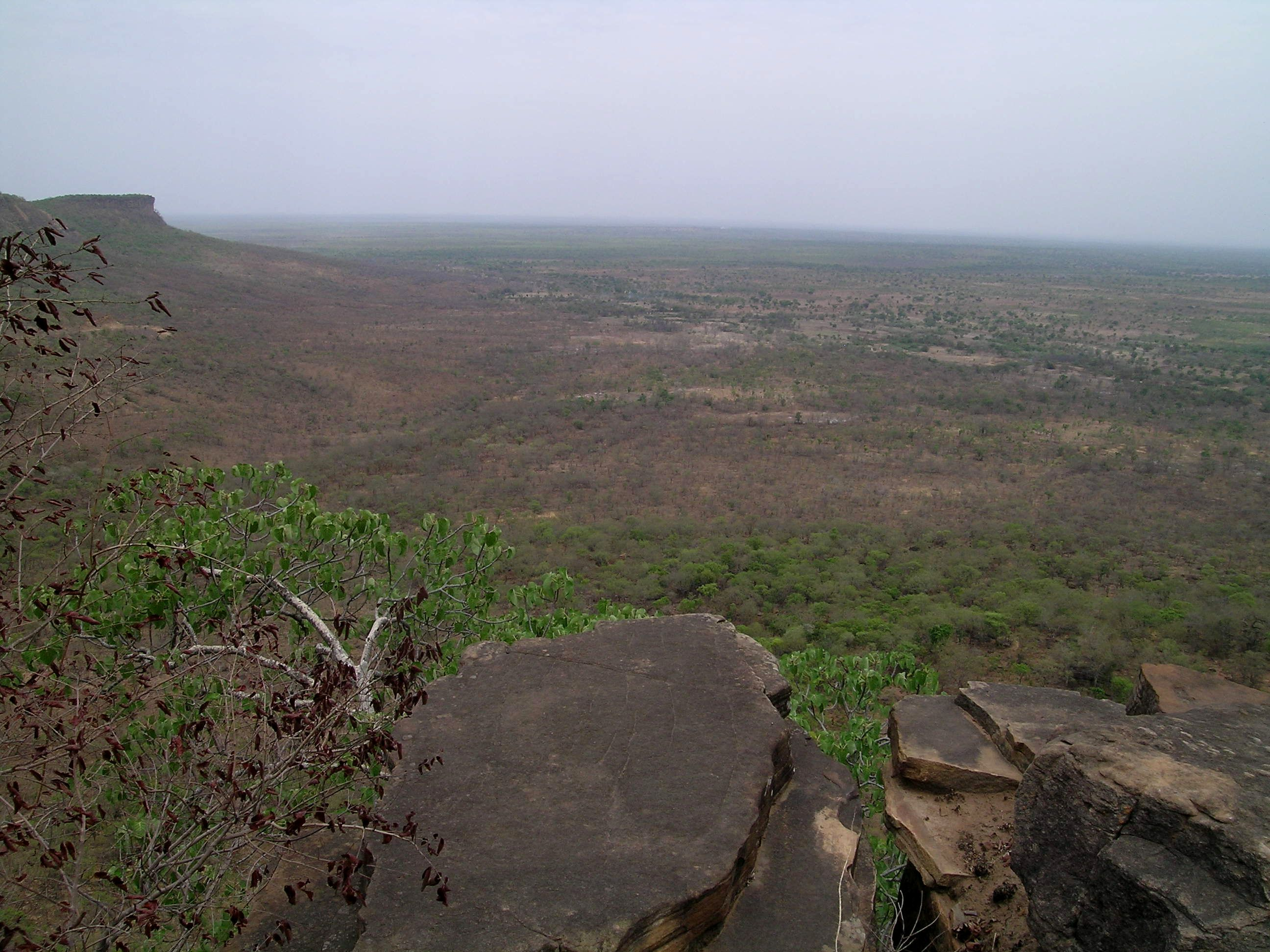 Cliffs near Nakpanduri, Ghana.